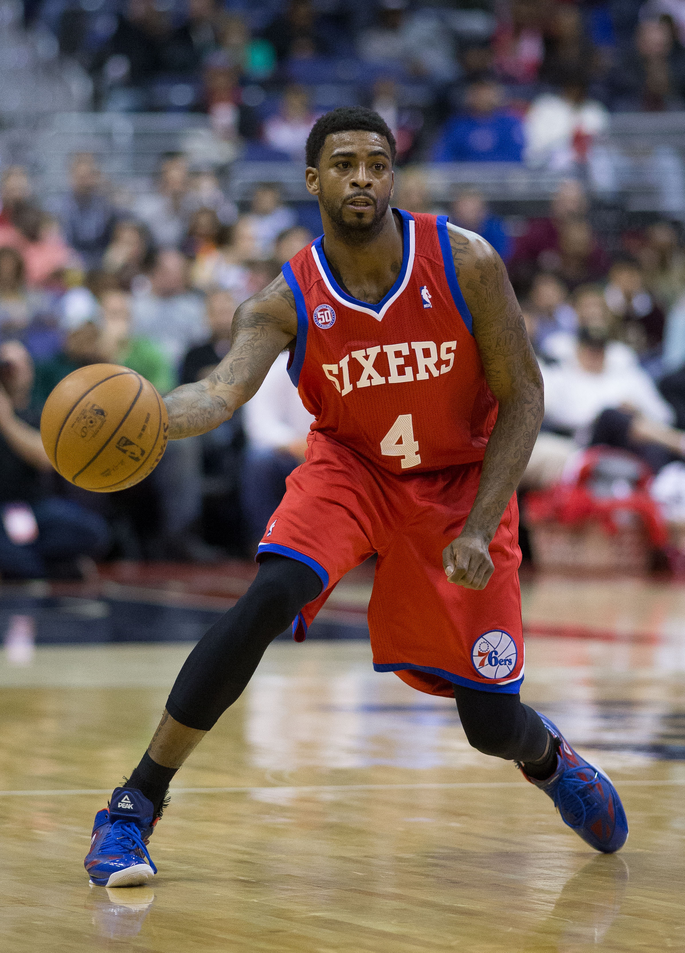 Philadelphia 76ers at Washington Wizards March 3, 2013